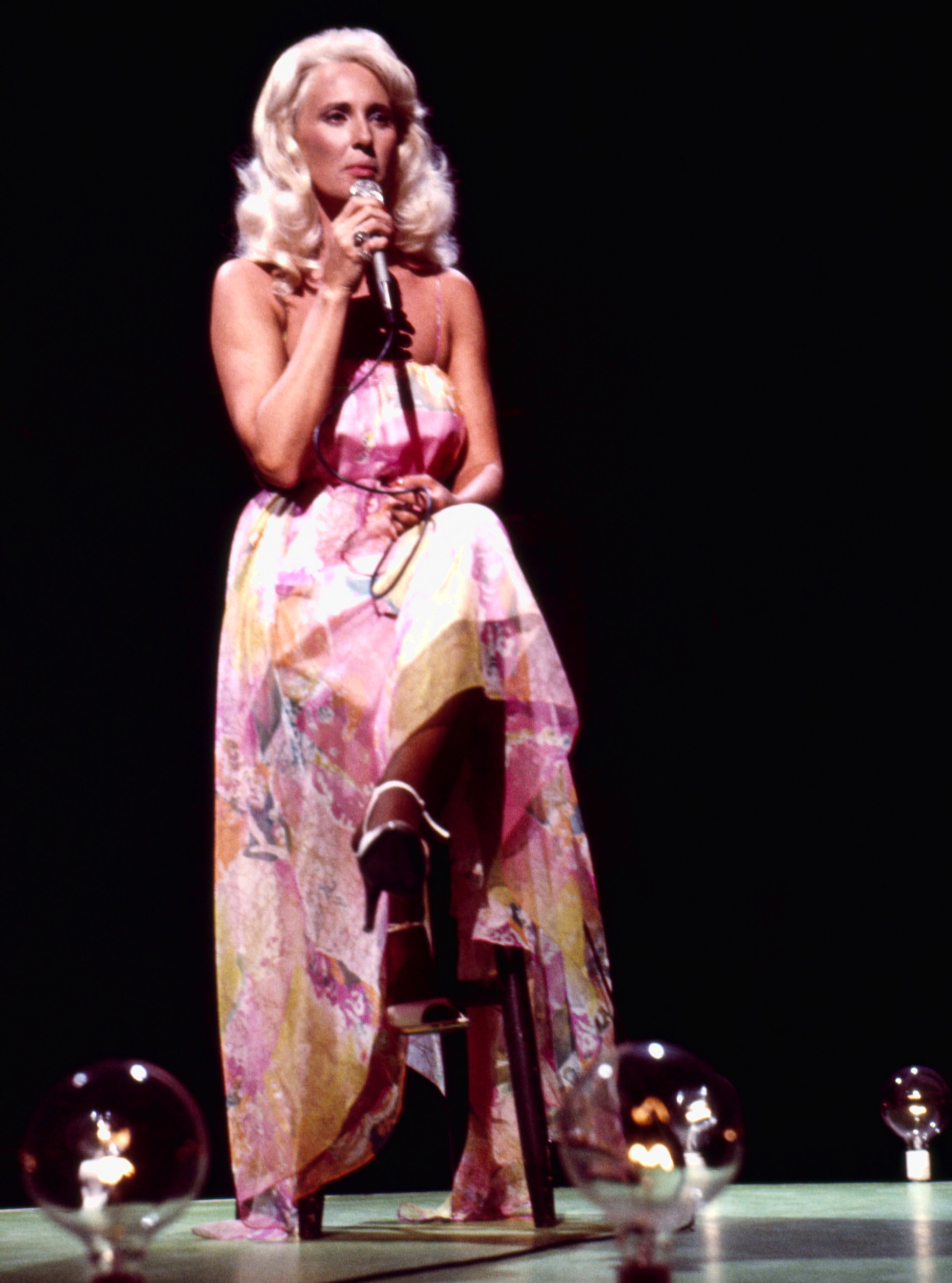 Country singer Tammy Wynette singing prior to the taping of The Johnny Cash Show in Nashville, Tennessee in 1977.